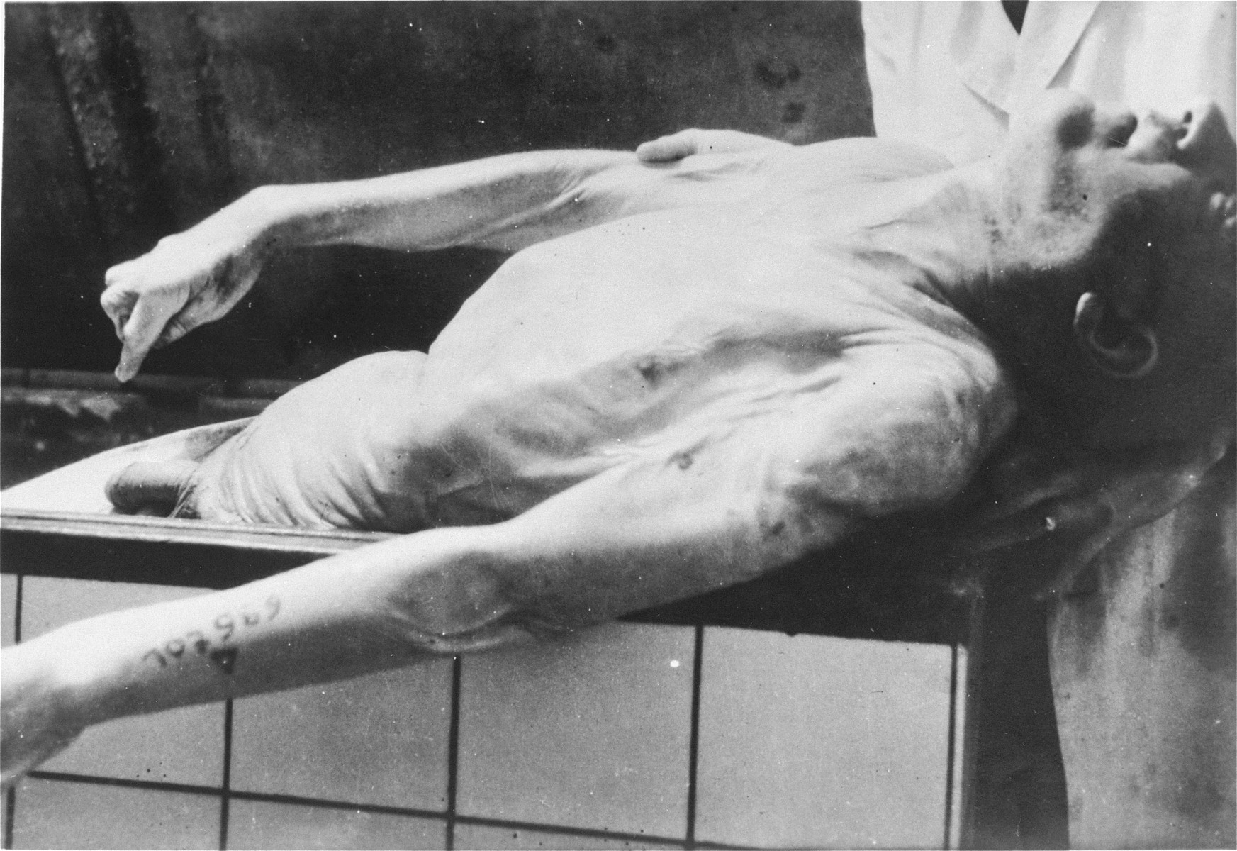 see title